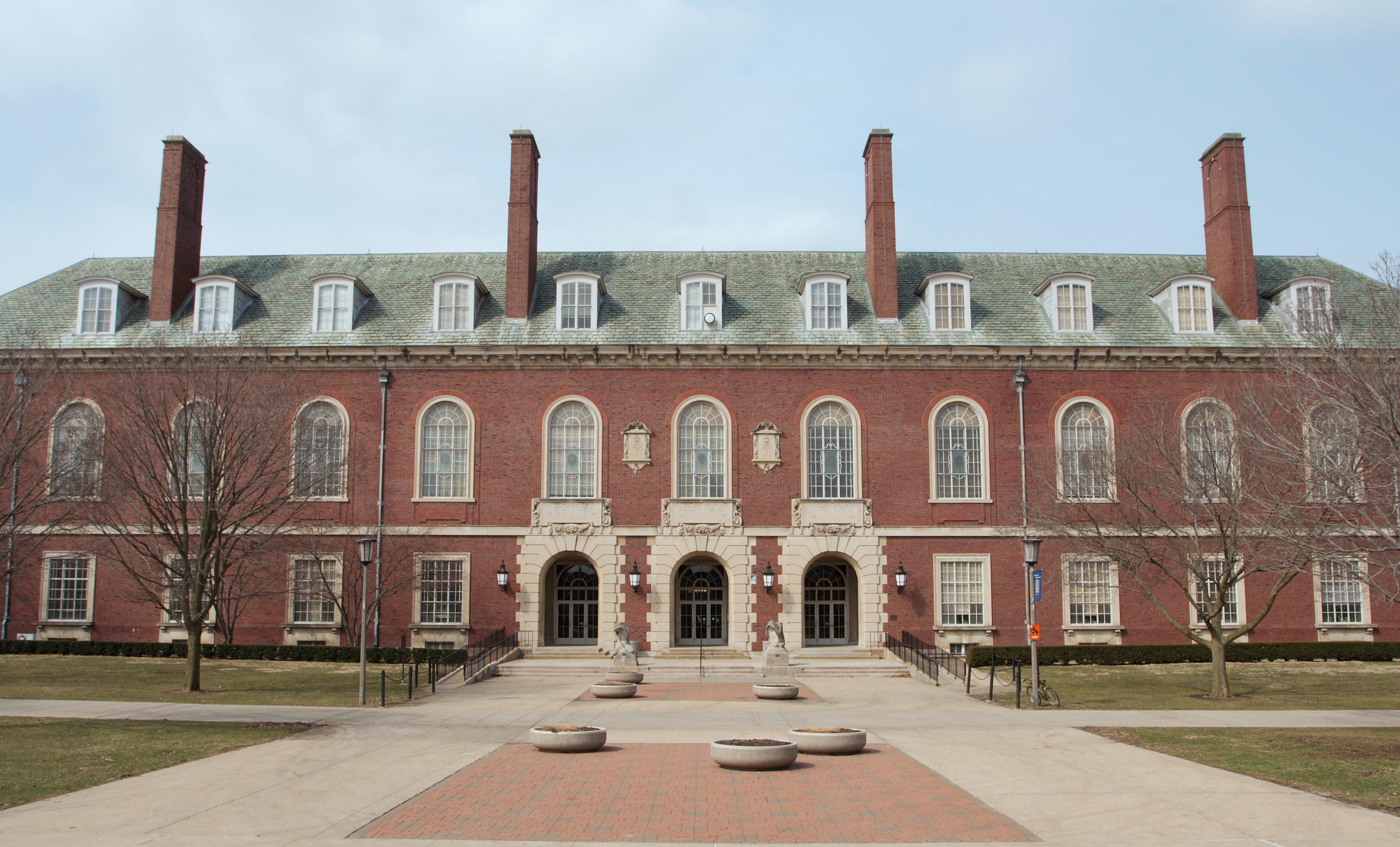 Urbana, IL Library--University of Illinois at Urbana-Champaign (added 2000 - Building - #00000413) Also known as Main Library 1408 W. Gregory Dr., Urbana Historic Significance: Architecture/Engineering Architect, builder, or engineer: Platt, Charles Adams Architectural Style: Colonial Revival Area of Significance: Community Planning And Development, Architecture Period of Significance: 1900-1924, 1925-1949 Owner: State Historic Function: Education Historic Sub-function: Library Current Function: Education Current Sub-function: Library